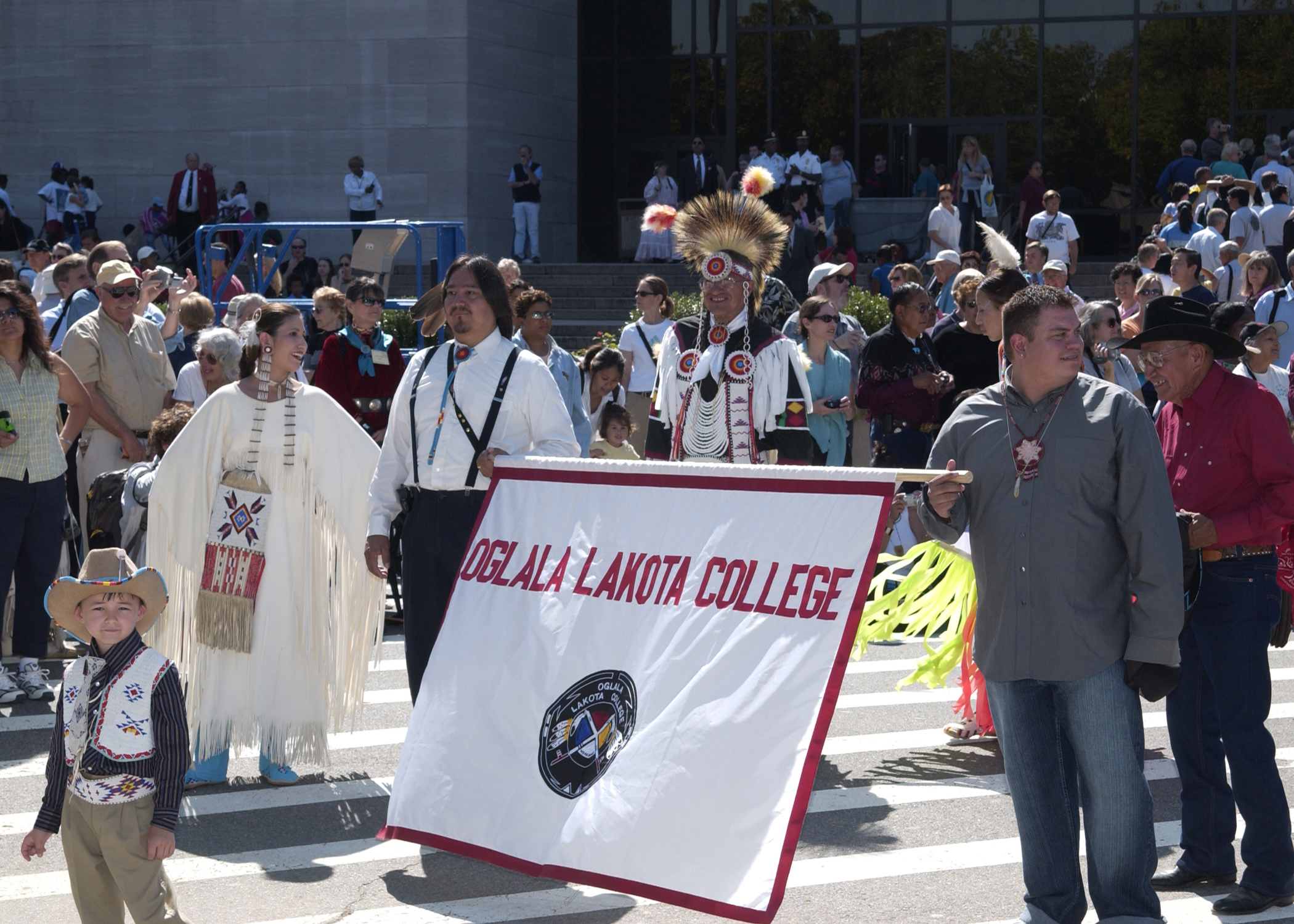 Washington, DC, September 21, 2004 -- Oglala Lakota College, One of the many Indian organizations marching to celebrate the opening of the National Museum of the American Indian. FEMA NewsPhoto/Bill Koplitz